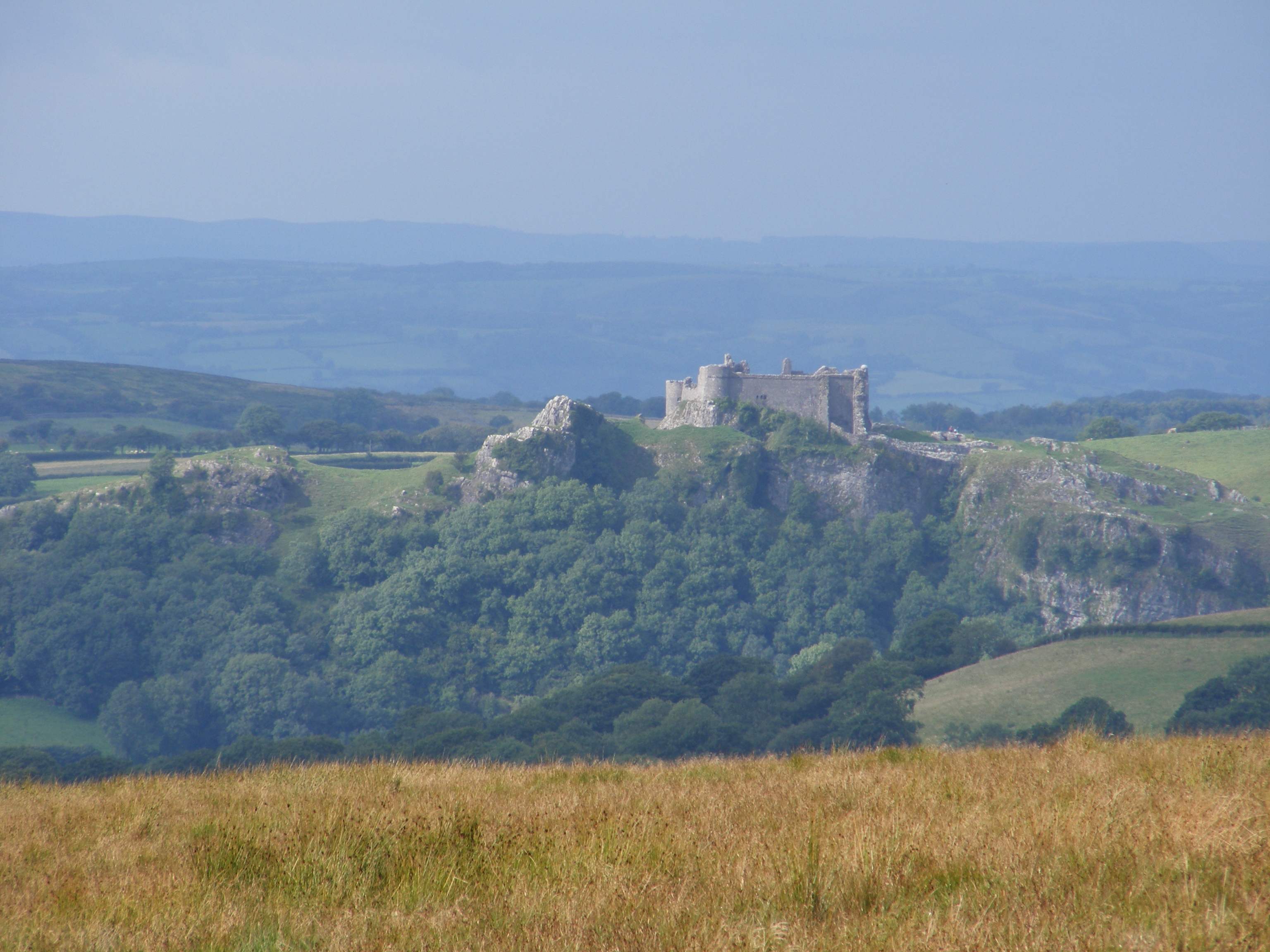 Carreg Cennen Castle near Carmarthenshire in south Wales. This was taken from a mountain top in the Black mountains near Garnant Wales